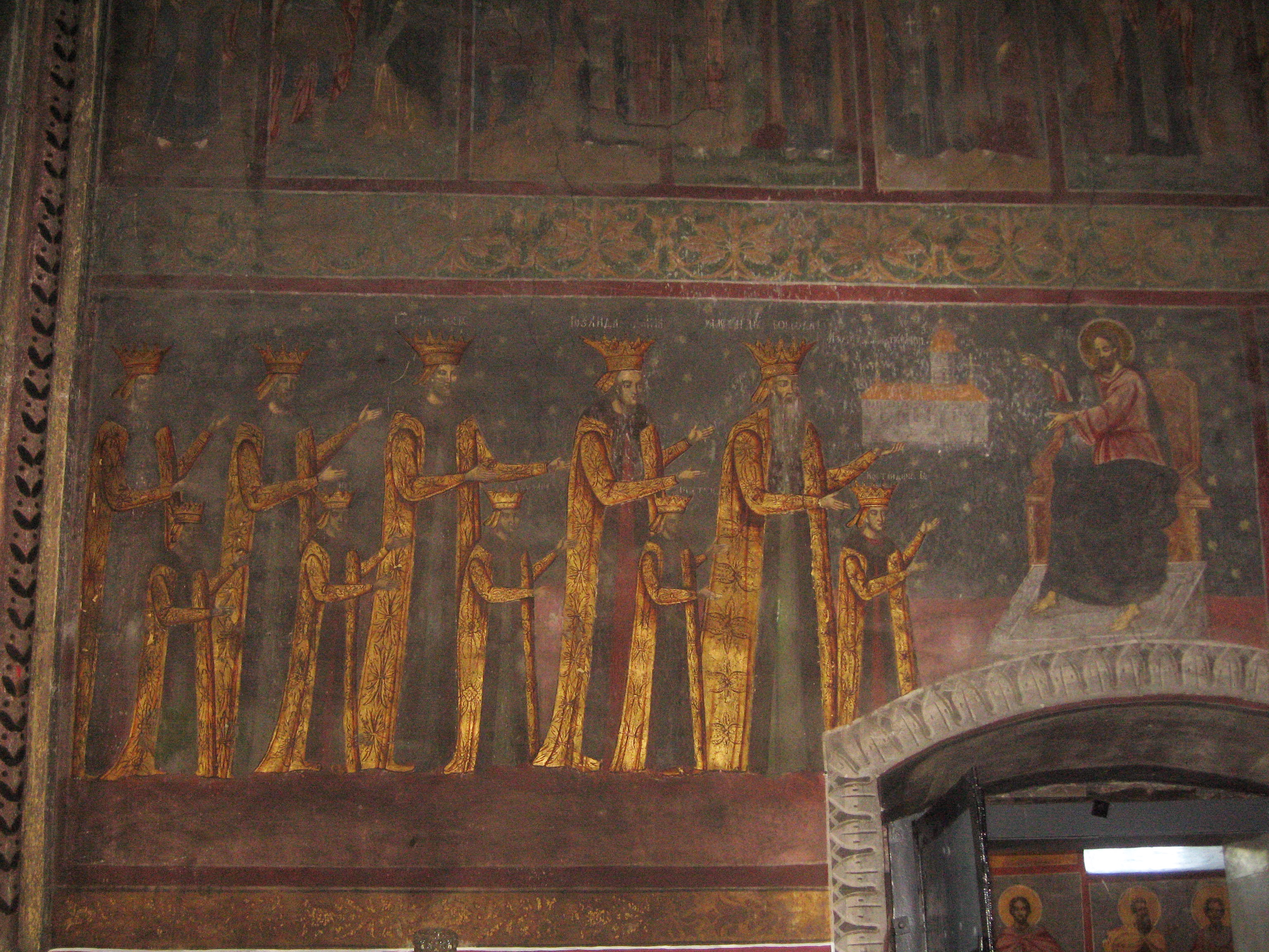 Slatina Monastery